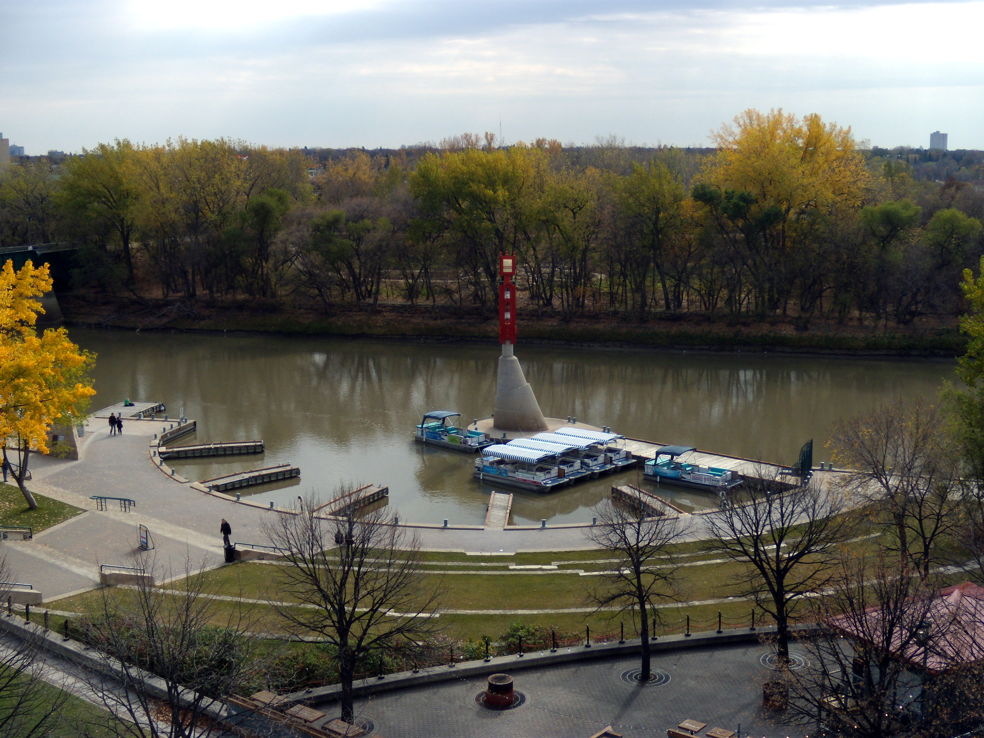 The Forks Historic Port in Winnipeg, Manitoba